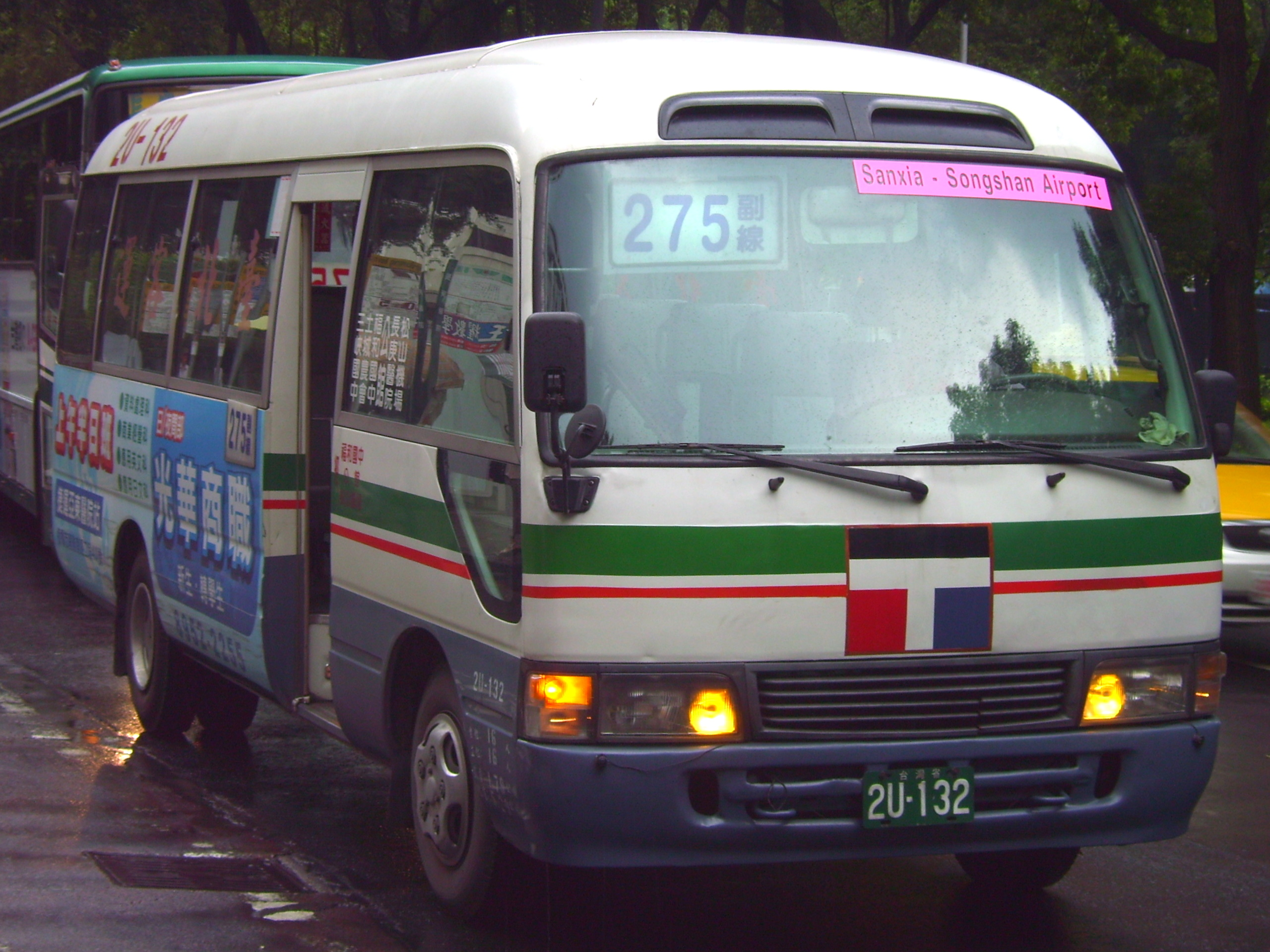 A Toyota Coaster Bus is operated by Taipei Bus Co., Ltd. Taiwan.